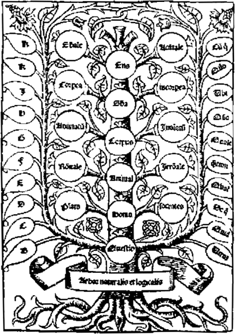 Arbor naturalis et logicalis, Tree of nature and logic (Tree of logical relations) containig a version of the tree of Porphyry (center). Leaves on the right: 10 types of questions Leaves on the left: 10 keys to a table of principles, corresponding Llull's Ars Magna (Great Art).